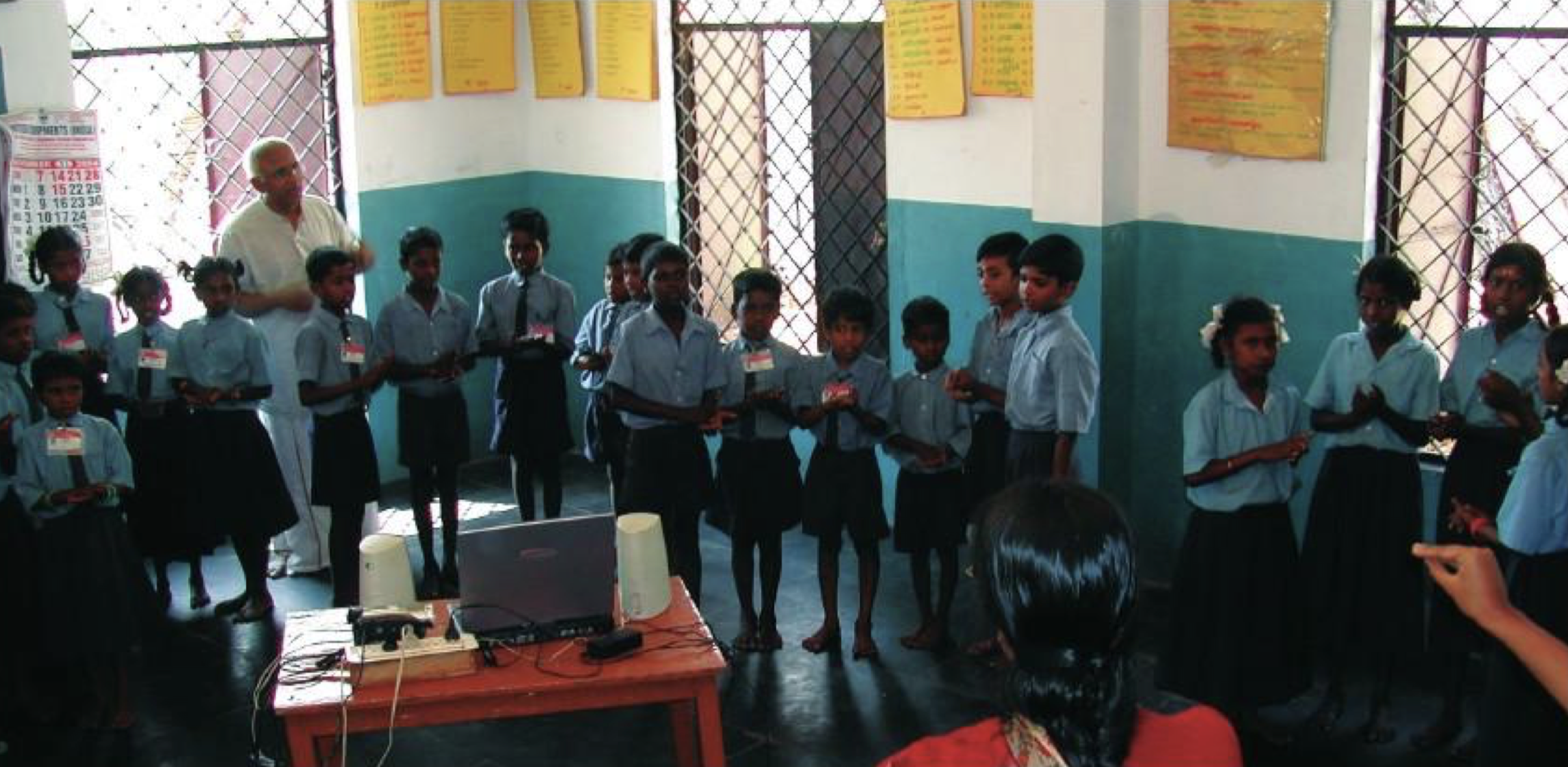 Subramanian teaching music to the Chennai Corporation School Children who were affected by the Tsunami disaster in 2004.